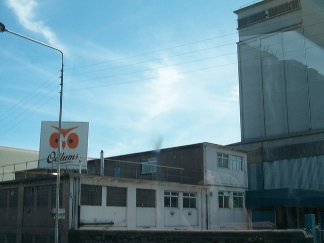 Odlums Grain Store, Alexandra Road Odlums, an Irish firm, has been milling grain since 1845.